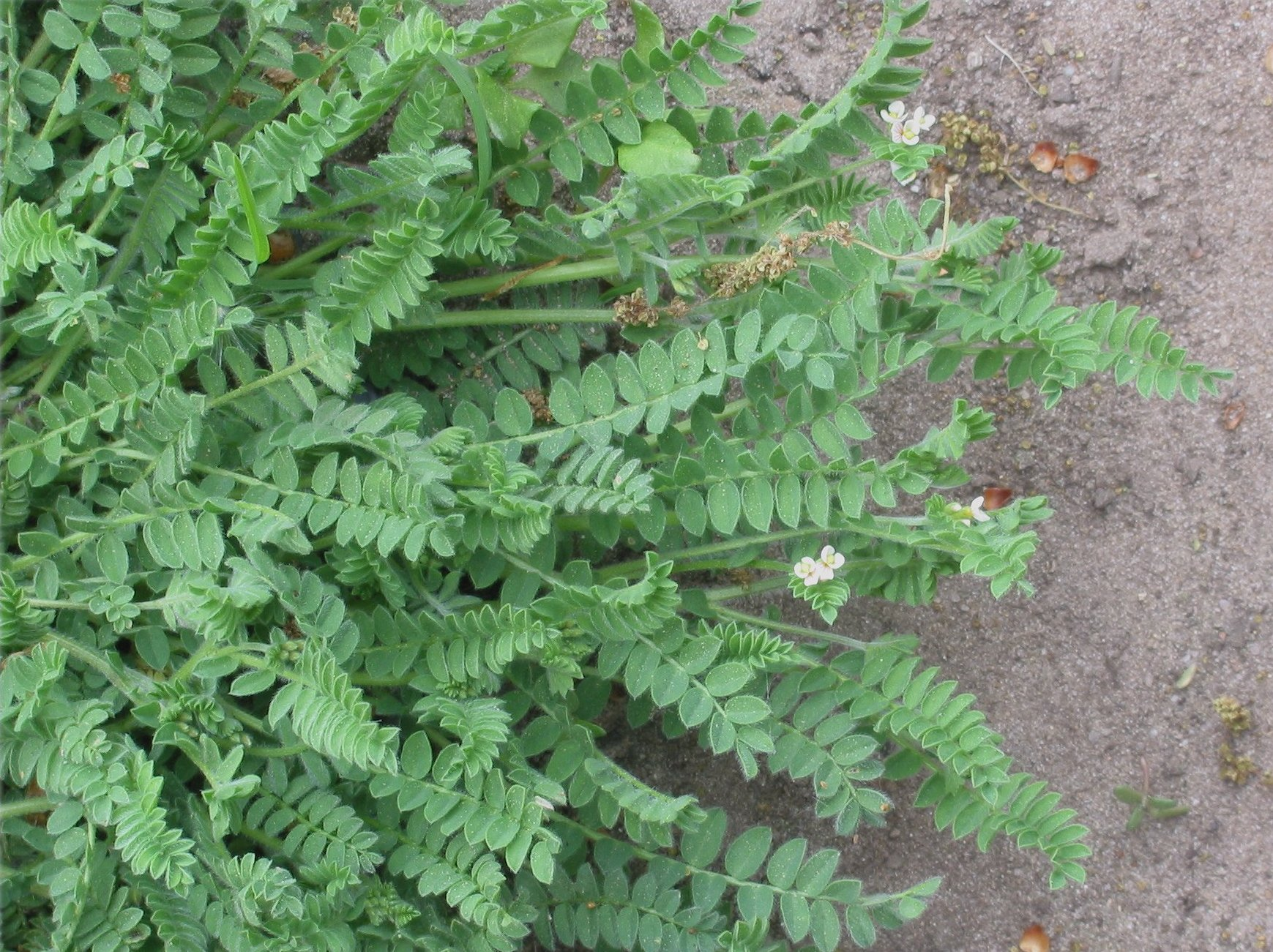 Ornithopus perpusillus